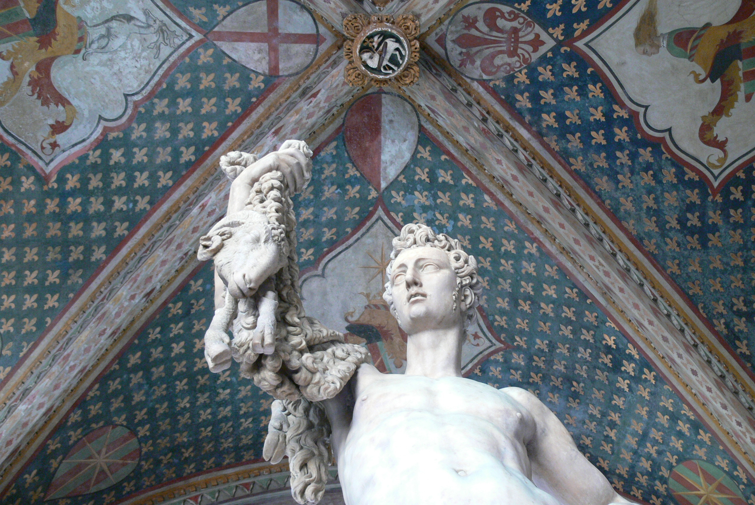 Museo del Bargello ( Florence ). Marble statue ( 1589 ) of Jason by Pietro Francavilla.